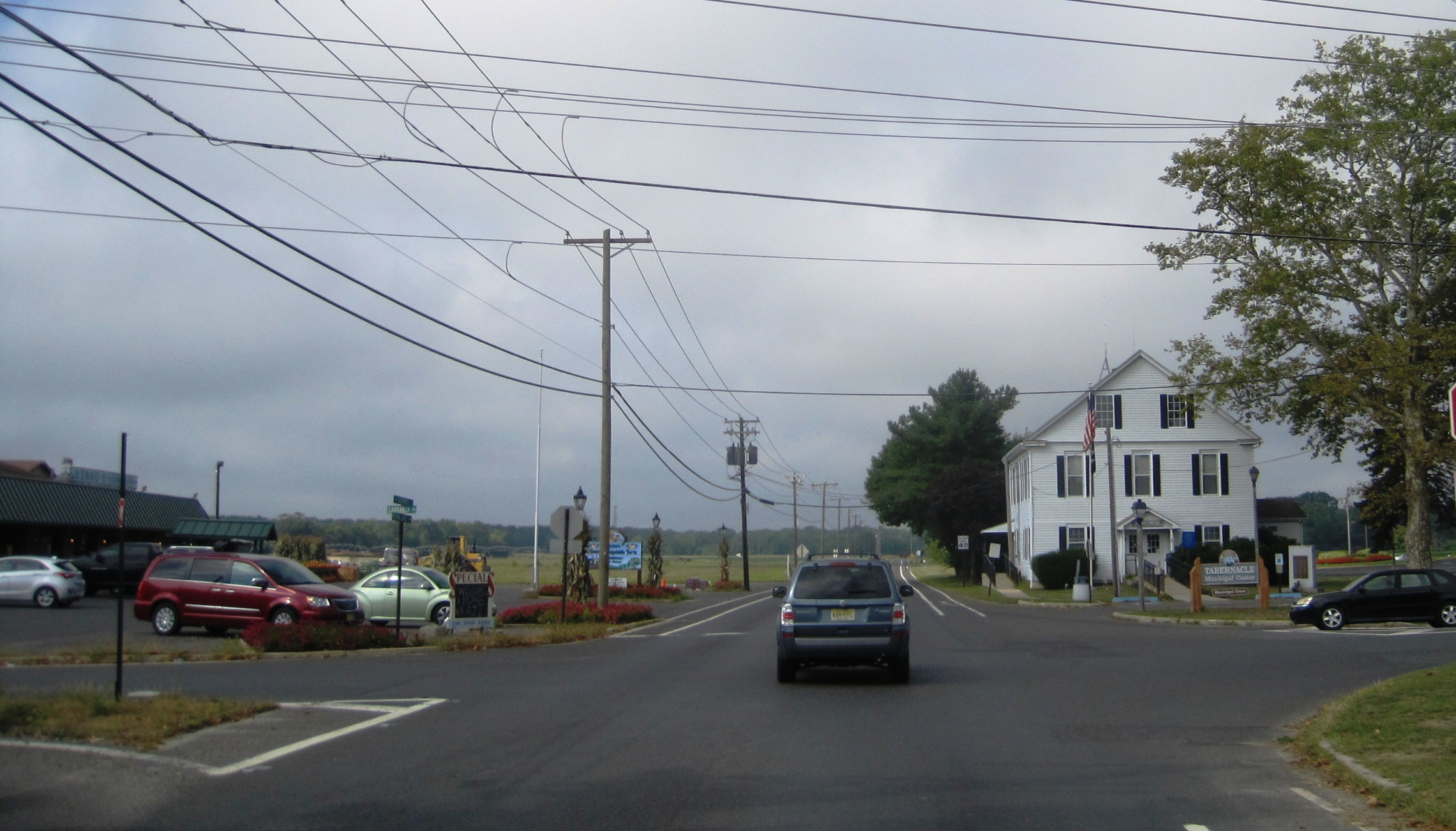 Photo of the center of Tabernacle Township within the unincorporated community of the same name. Photo taken at the intersection of westbound Tabernacle Road (County Route 532) and Carranza Road (CR 648).